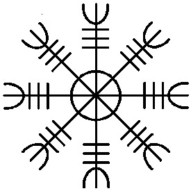 Œgishjálmr. It shall be made in lead, and wen a man expects his enemies, he shall imprint on his forehead. And thou wilt conquer him.